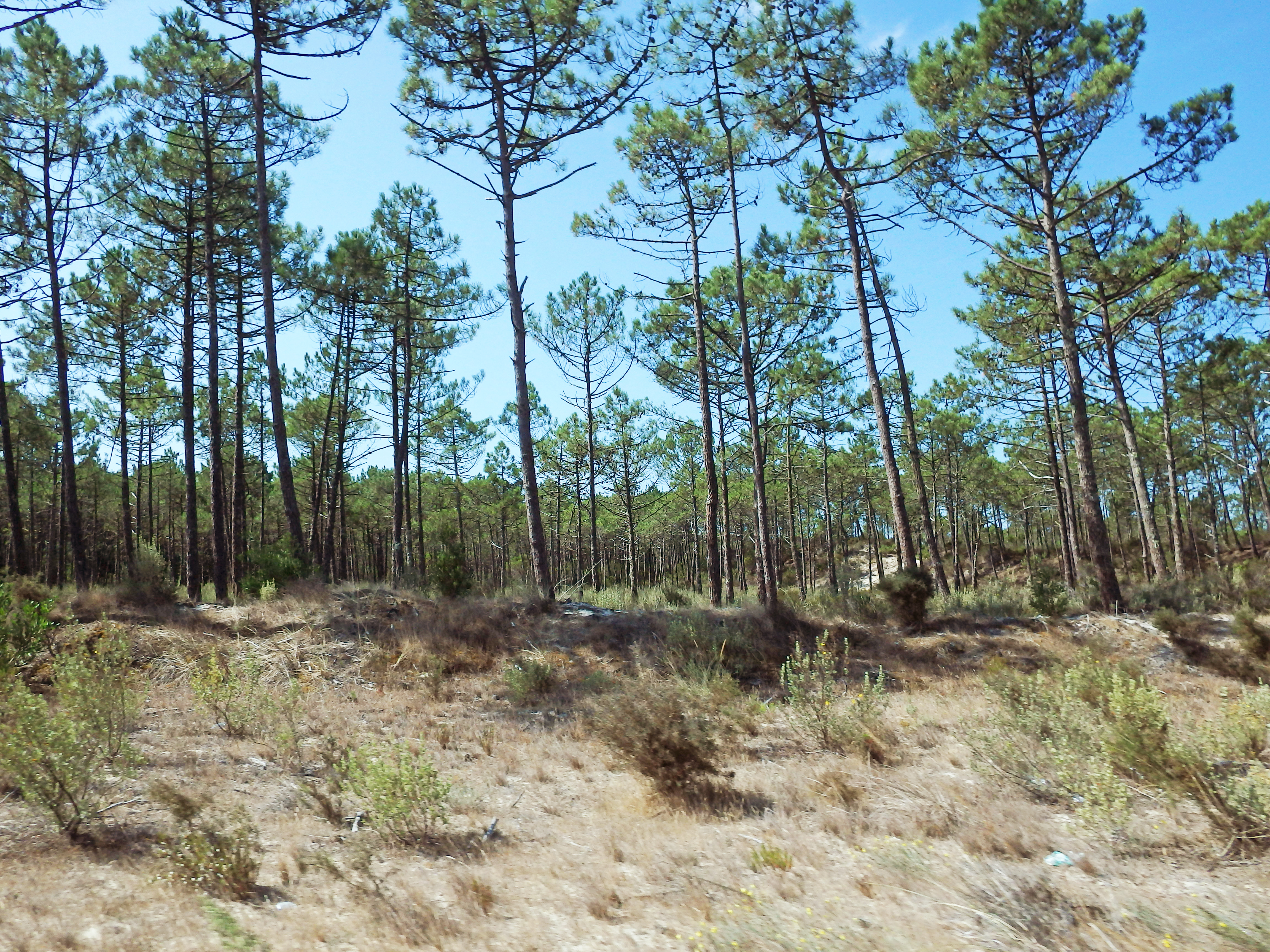 Pinus pinaster, the dominant species in the Dunas de Mira, Gândara e Gafanhas Natura 2000 site. This is a photography of a Site of Community Importance in Portugal with the ID: PTCON0055. Natura2000 entry, EEA entry